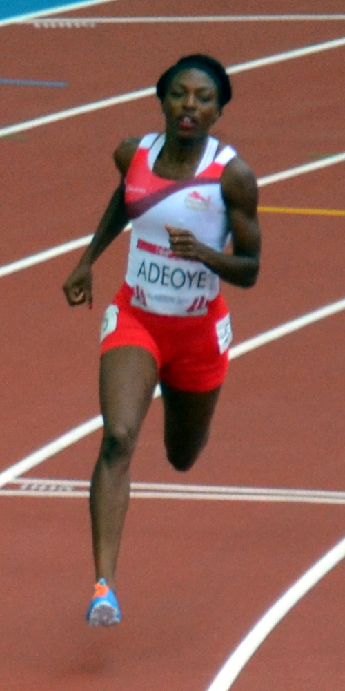 Margaret Adeoye Commonwealth Games 2014, 400m, Heat 6